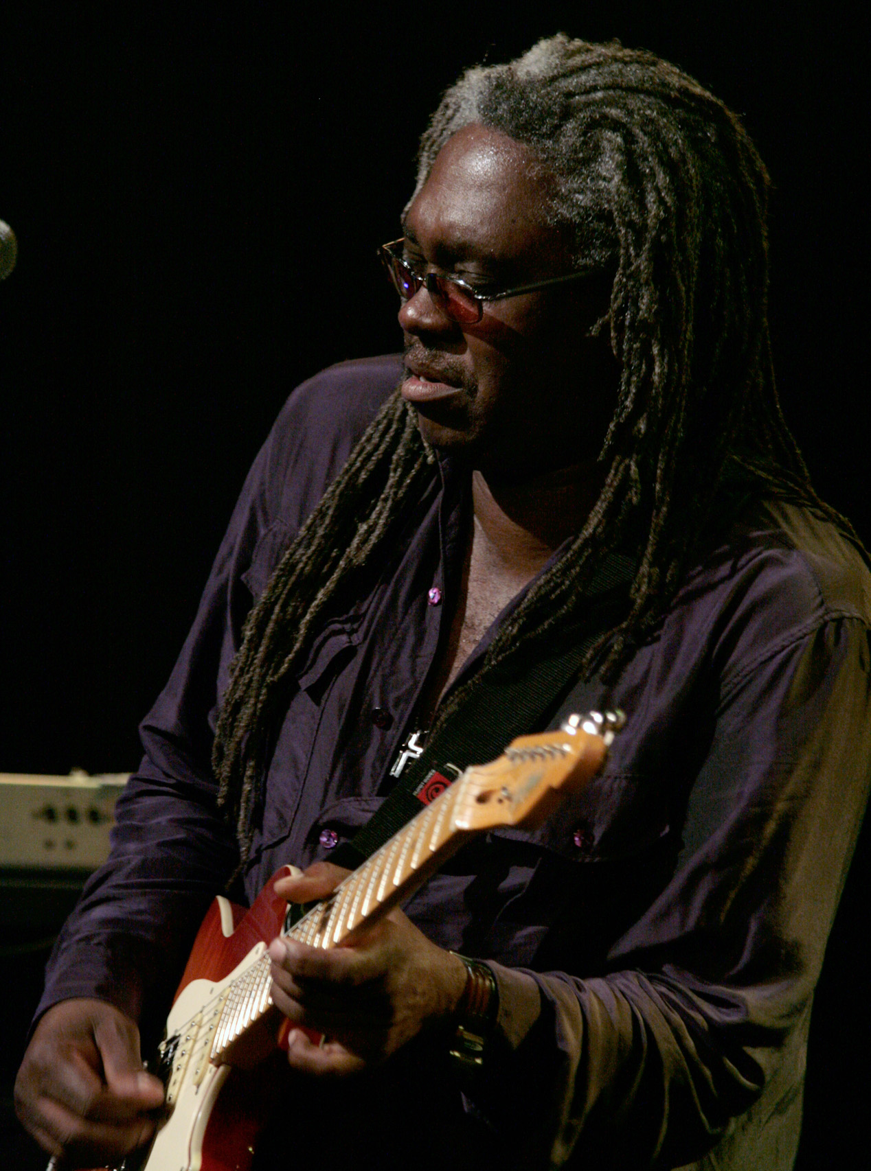 DeWayne "Blackbyrd" McKnight; concert with SociaLibrium at the jazz club Porgy & Bess in Vienna